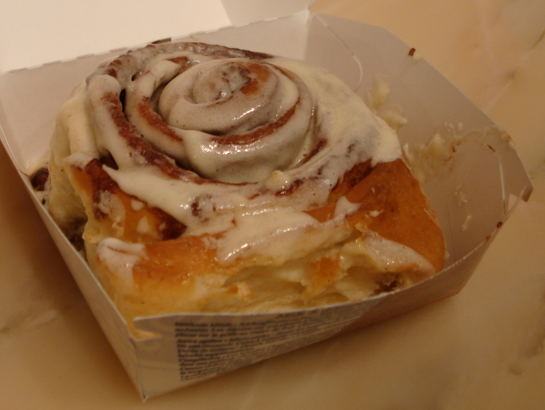 Cinnamon roll as produced by cinnabon